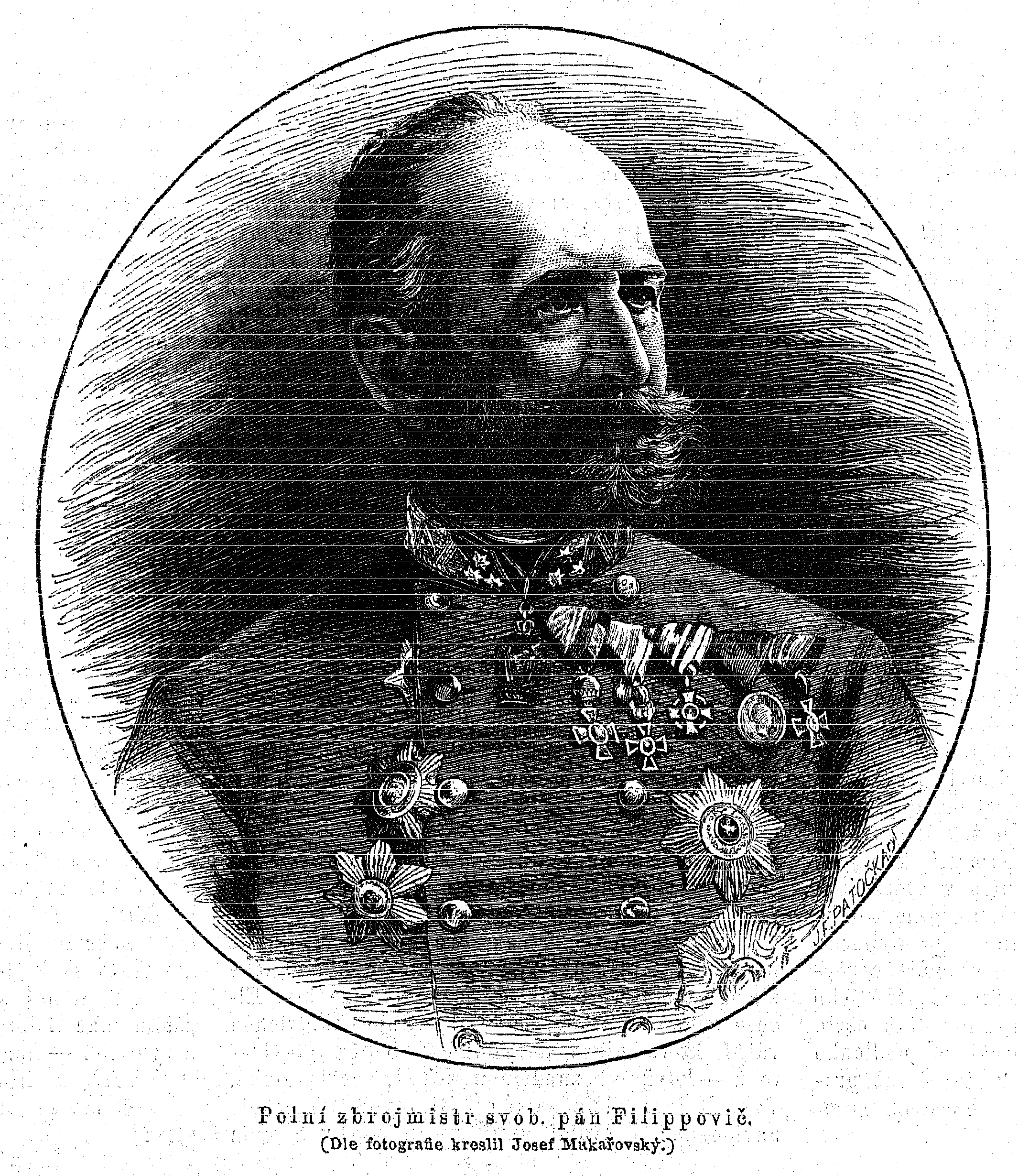 Portrait of Josip Filipović (1819 Gospić - 1889 Prague), Croatian general in Austrian and Austro-Hungarian army.